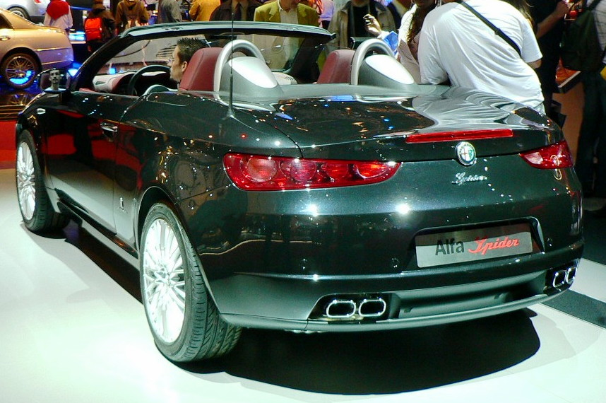 Alfa Romeo Spider at the 2006 Paris Motor Show